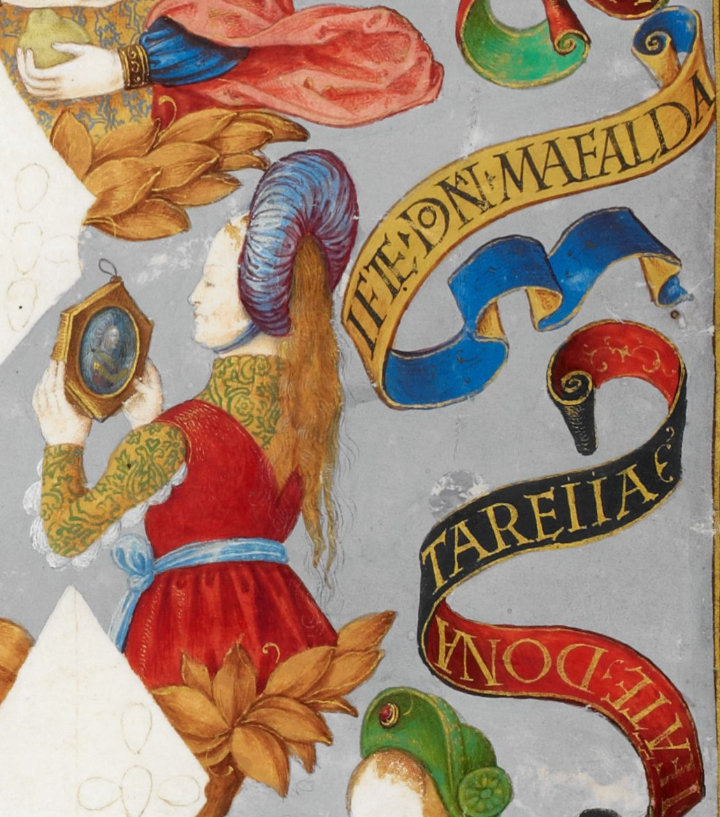 Mafalda, Infanta of Portugal (1149–1160), in a 16th-century miniature.